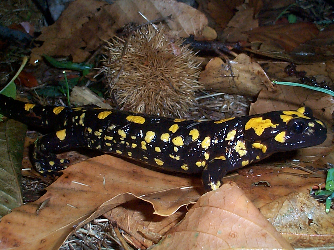 Corsican Fire Salamander (Salamandra corsica), Corte (Tavignanu)